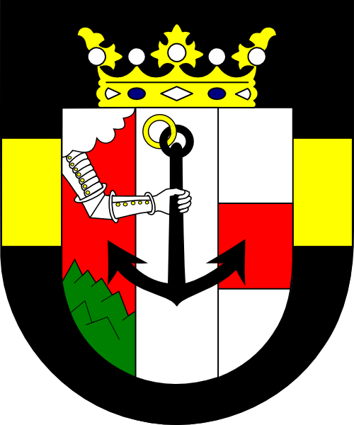 Coat of arms (shield only) of Matouš Ferdinand Soubek z Bílenberka, bishop of Hradec Králové, Czech Republic (1664 - 1668), archbishop of Prague (1669 - 1675). Tincture of the pale unknown.